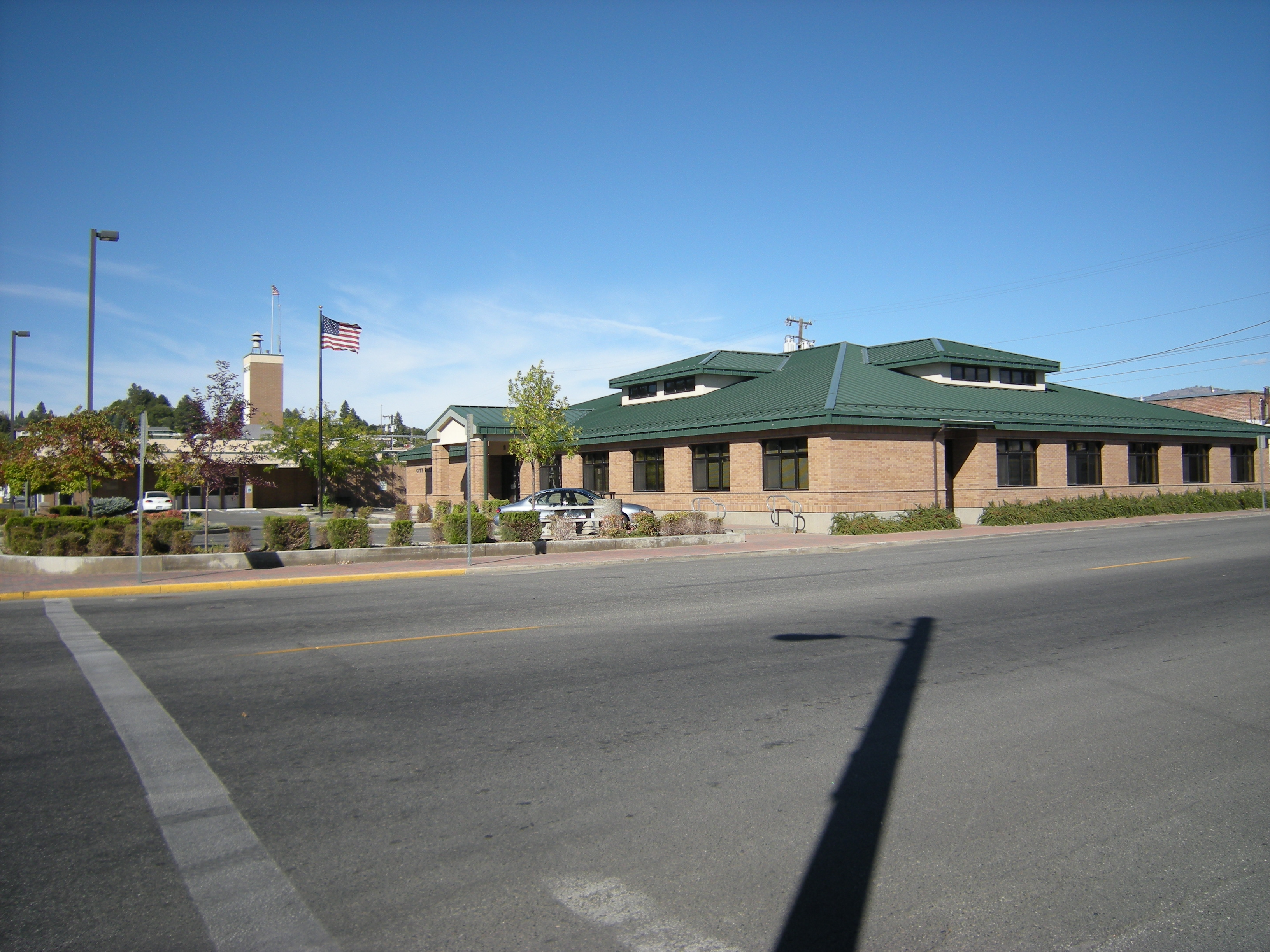 City hall and fire department, Omak, Washington.